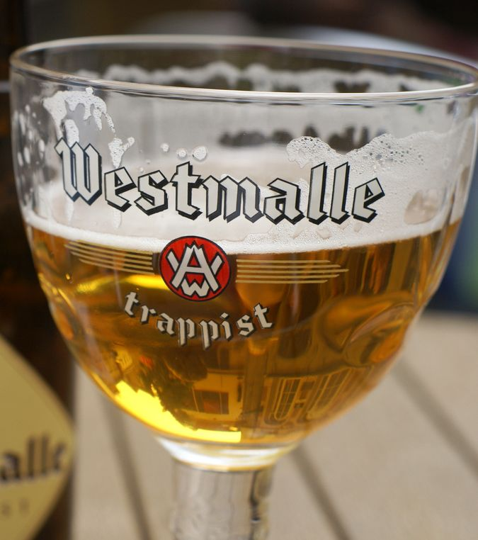 Glass of Westmalle Tripel